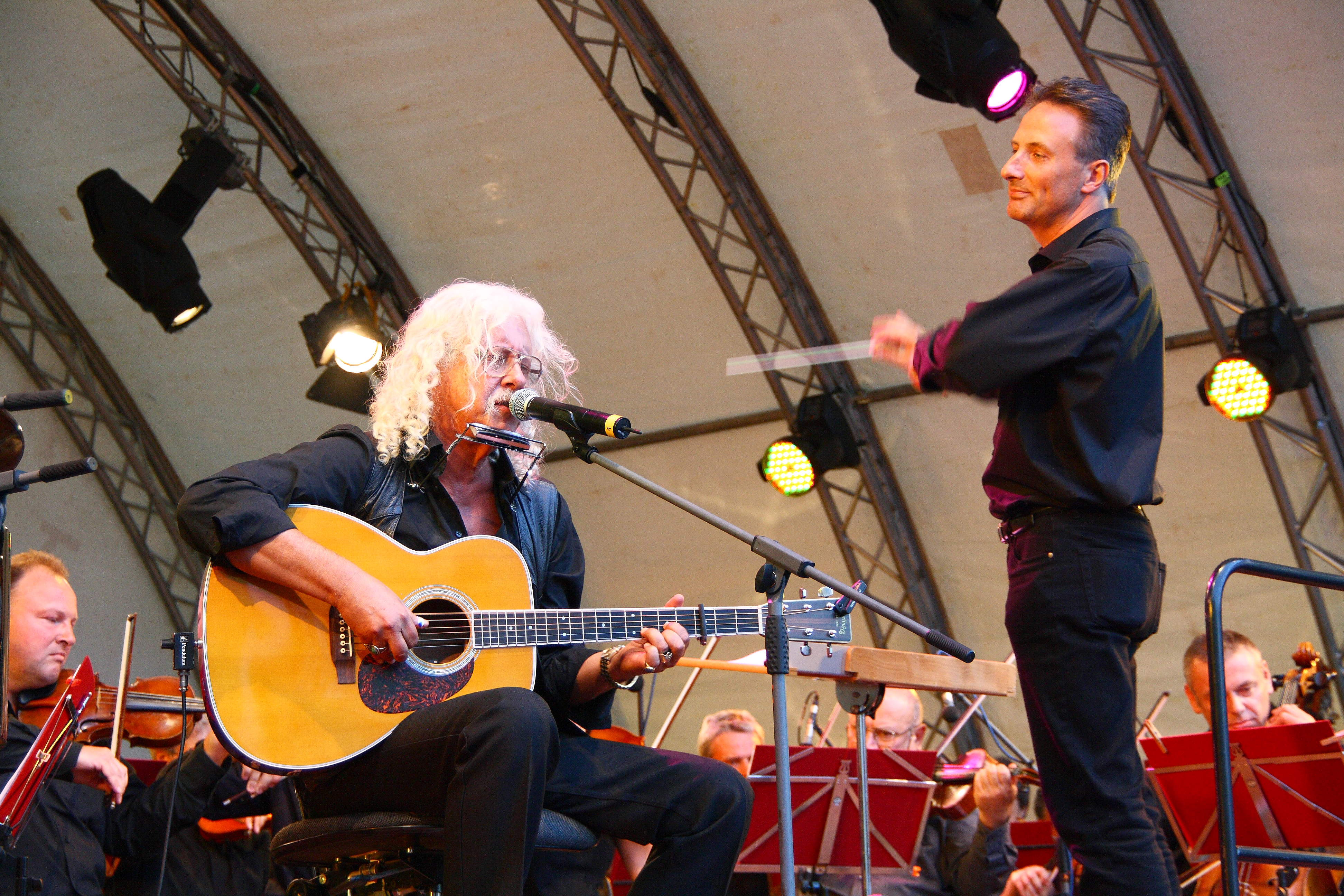 Arlo Guthrie with Thüringer Symphoniker, conducted by Oliver Weder